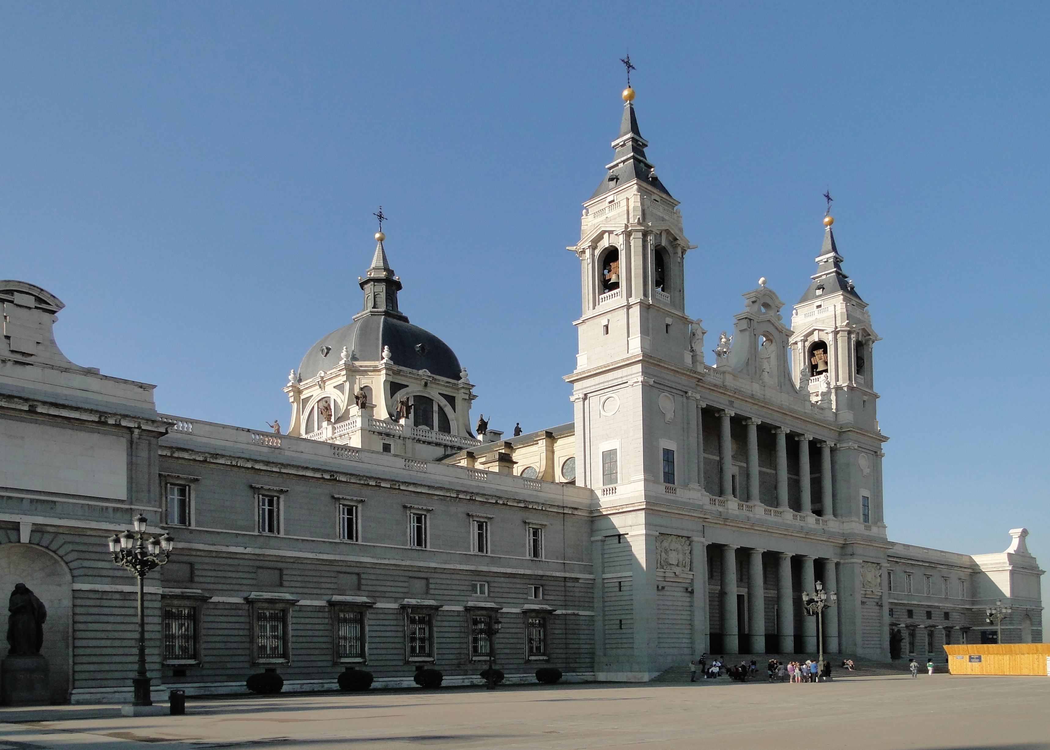 Almudena Cathedral, Madrid, Spain